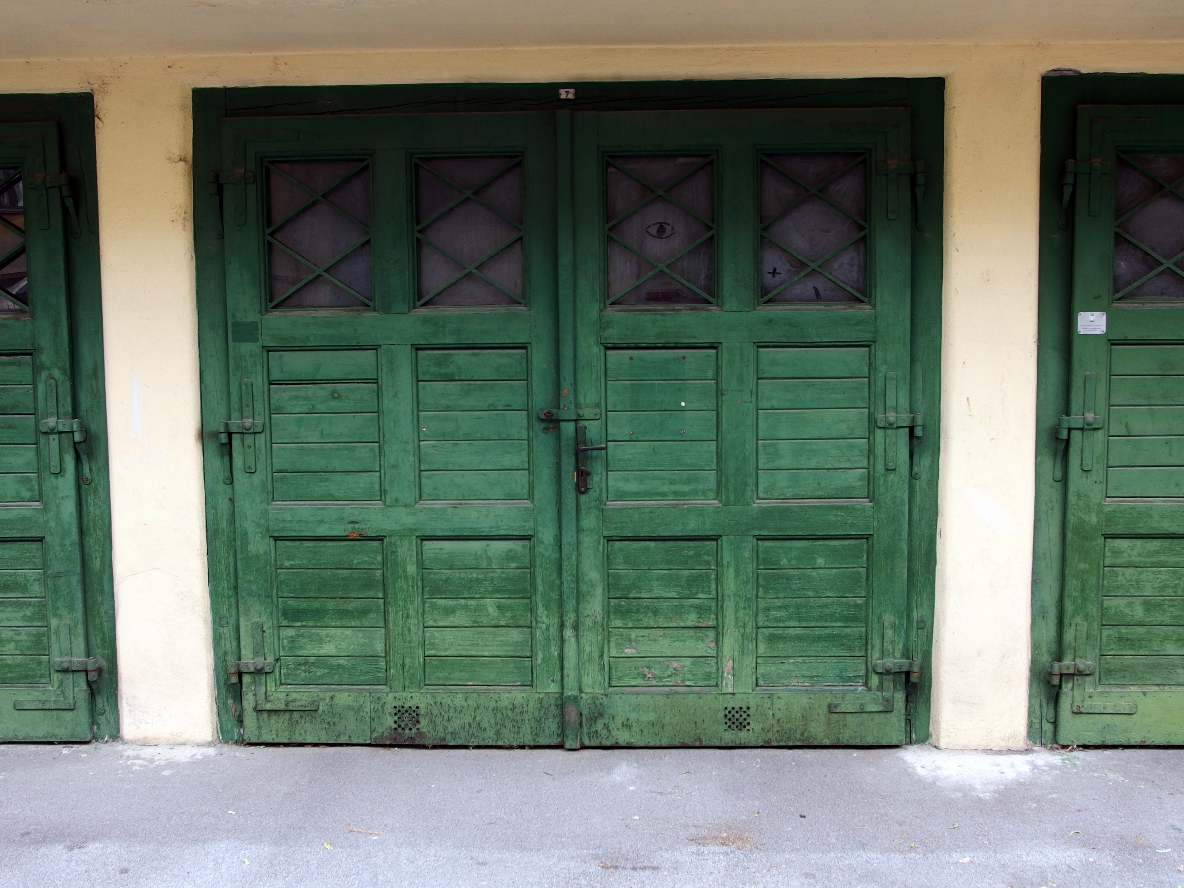 2013-05-28 in Ljubljana.